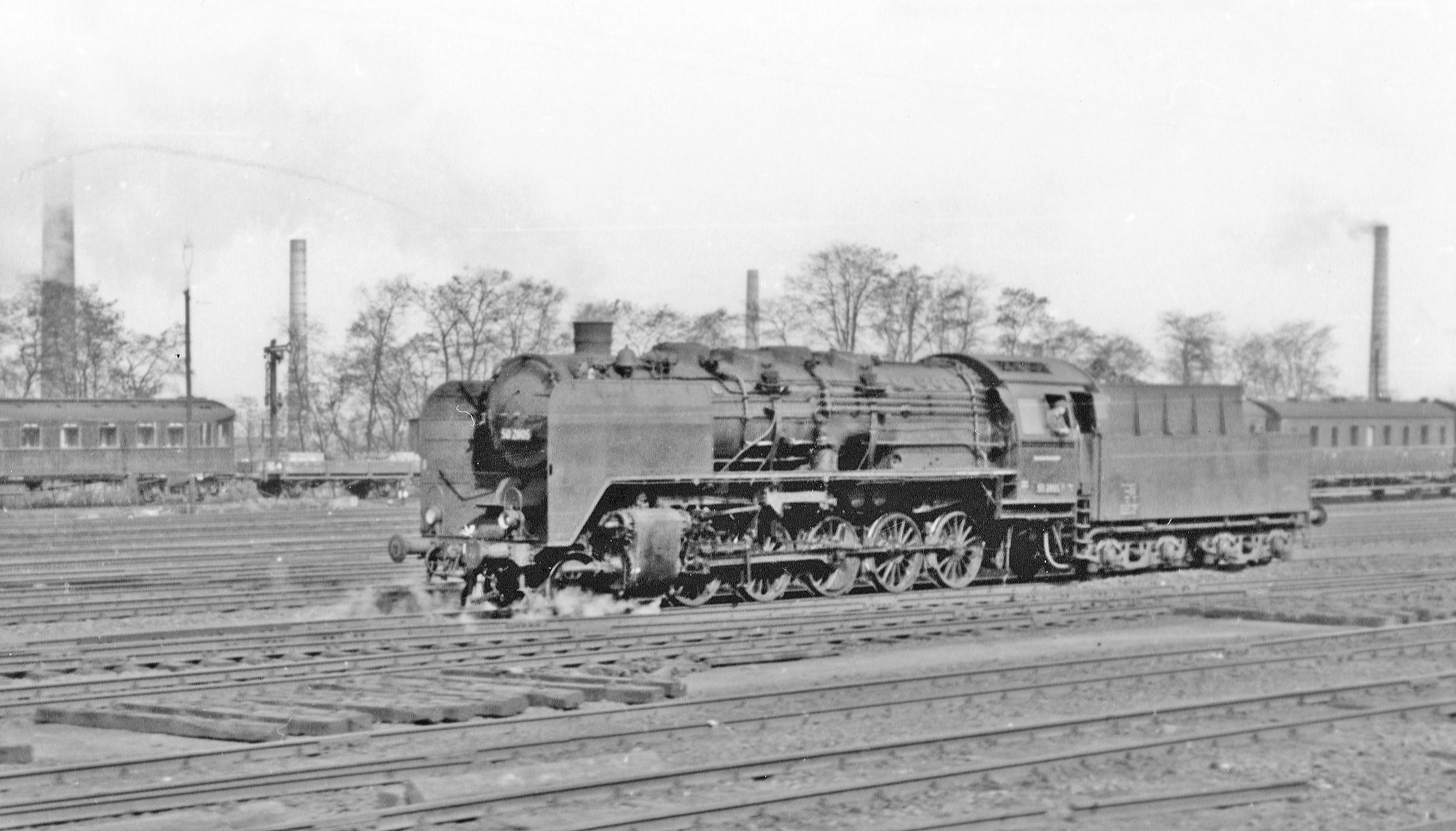 DB 50 class 2-10-0 at Kassel, 1953